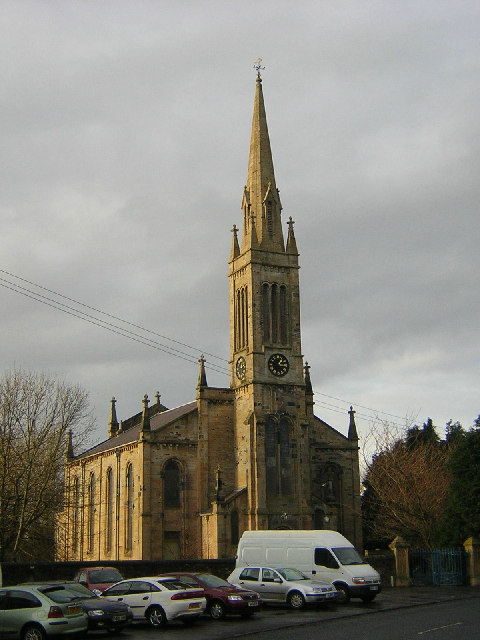 Church in Cambuslang. Cambuslang Old Parish Church. Adjacent to Vicarland Road